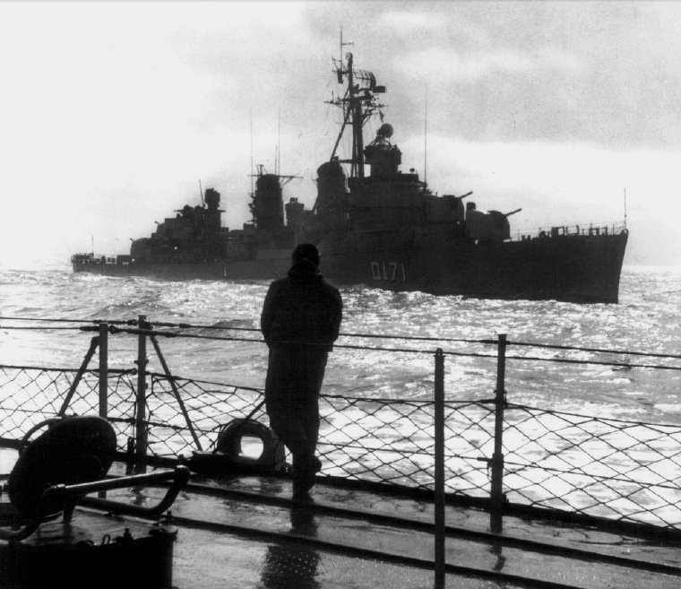 The West German destroyer Zerstörer 2 (D 171) during a fleet exercise, in 1960. Z 2 was commissioned as USS Ringgold (DD-500) and served with the U.S. Navy from 1942 to 1946. She was transferred to West Germany in 1959 and served until 1981, when she was again transferred to Greece as Kimon (D42). The ship was finally decommissioned and scrapped in 1993.